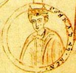 Conrad II of Italy